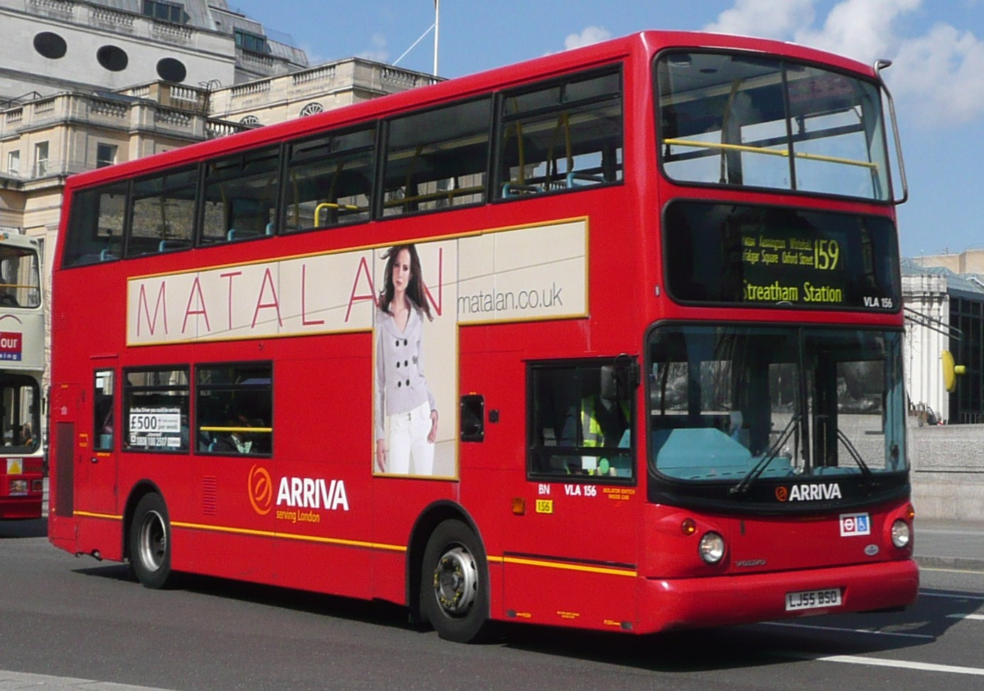 An Arriva bus on route 159 in Trafalgar Square in London